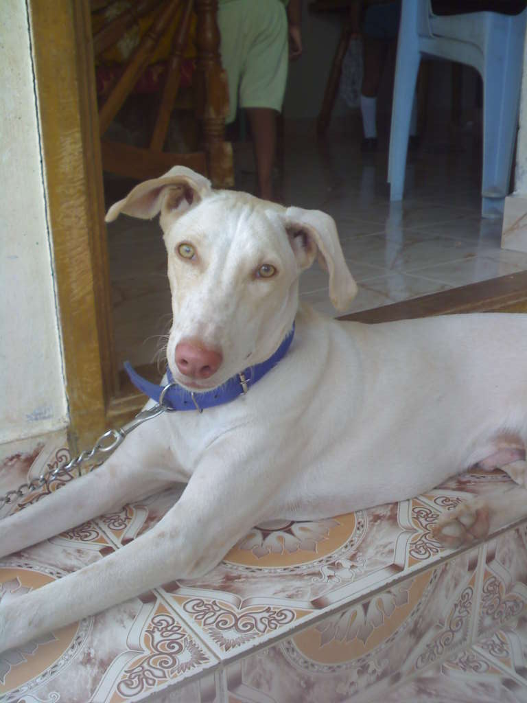 Rajapalayam Dog